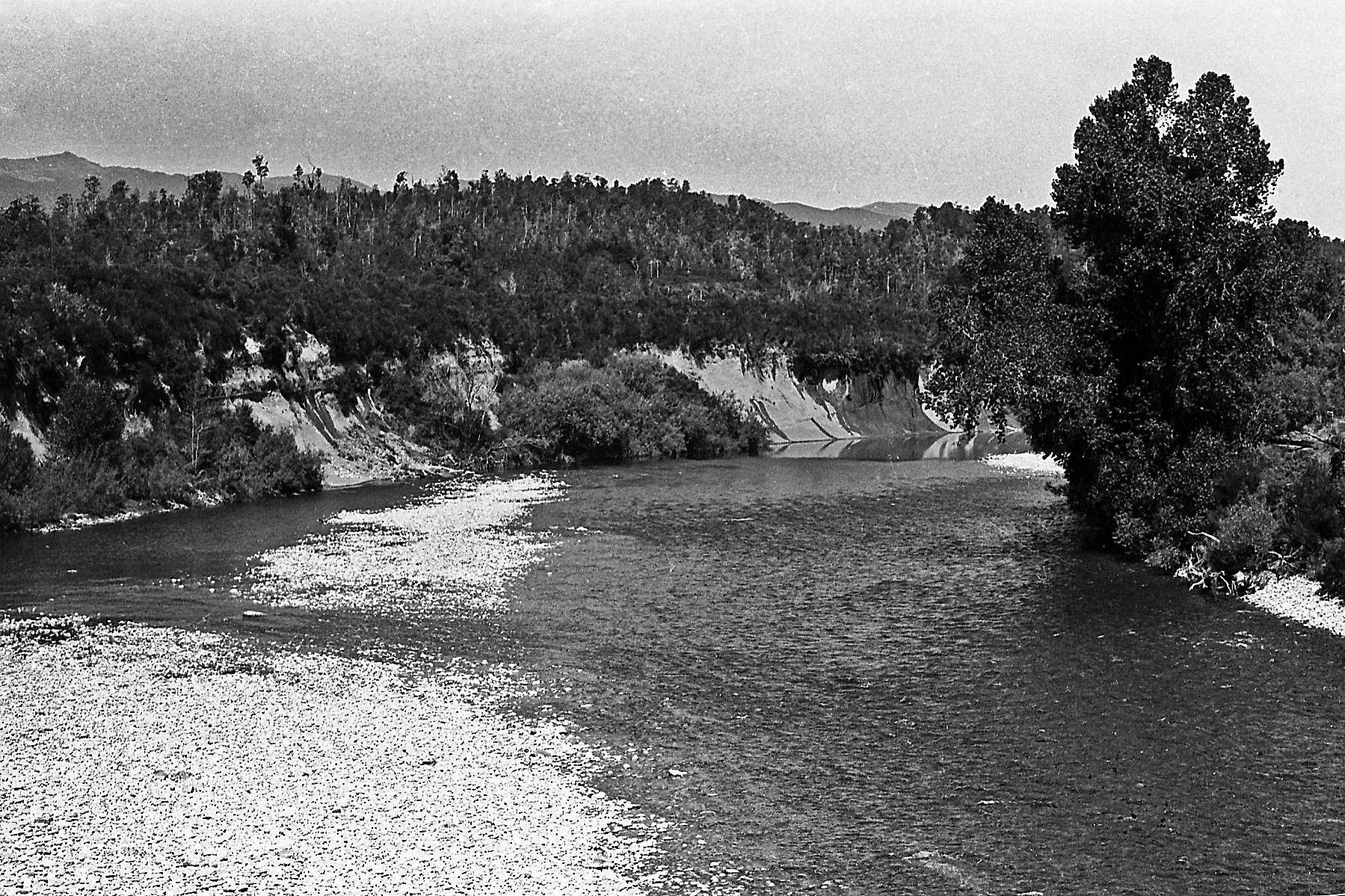 Inangahua River, West Coast, New Zealand